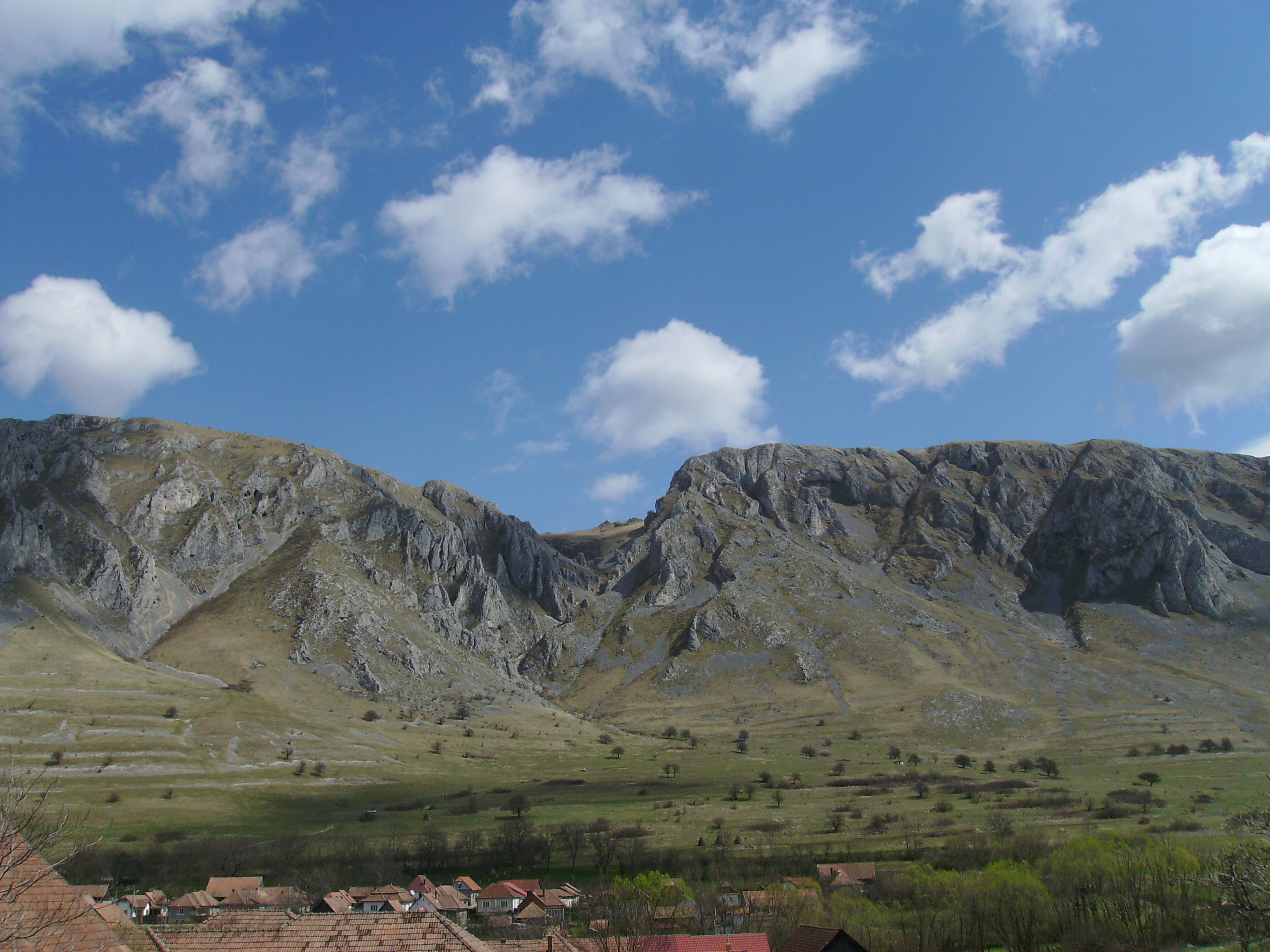 Piatra Secuiului or Szekelykő (Szekely's Rock) and part of Rimetea village seen from west in Transylvania, Romania.